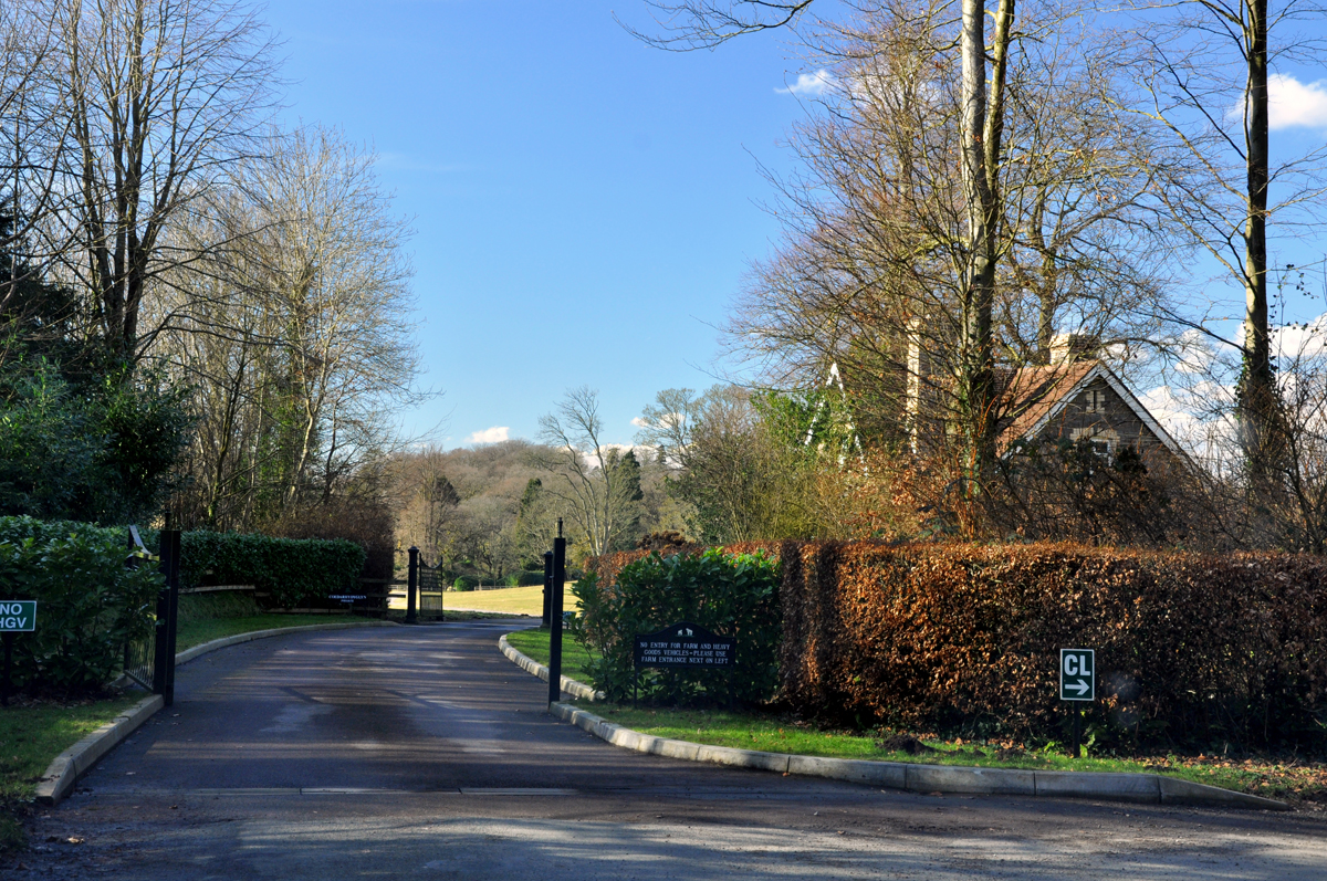 South Lodge and drive of Coedarhydyglyn Park - Cardiff The estate comprises a picturesque early 18th century landscaped park that survives in its original form together with several buildings and features of historical interest. The gardens include a woodland dell with a Japanese flavour, possibly designed by Alfred Parsons and Partners in addition to woodland containing conifers and rhododendrons, some of which were planted in the 1940s and 1950s. The property is also one of many sites utilised for the filming of the Dr Who series.